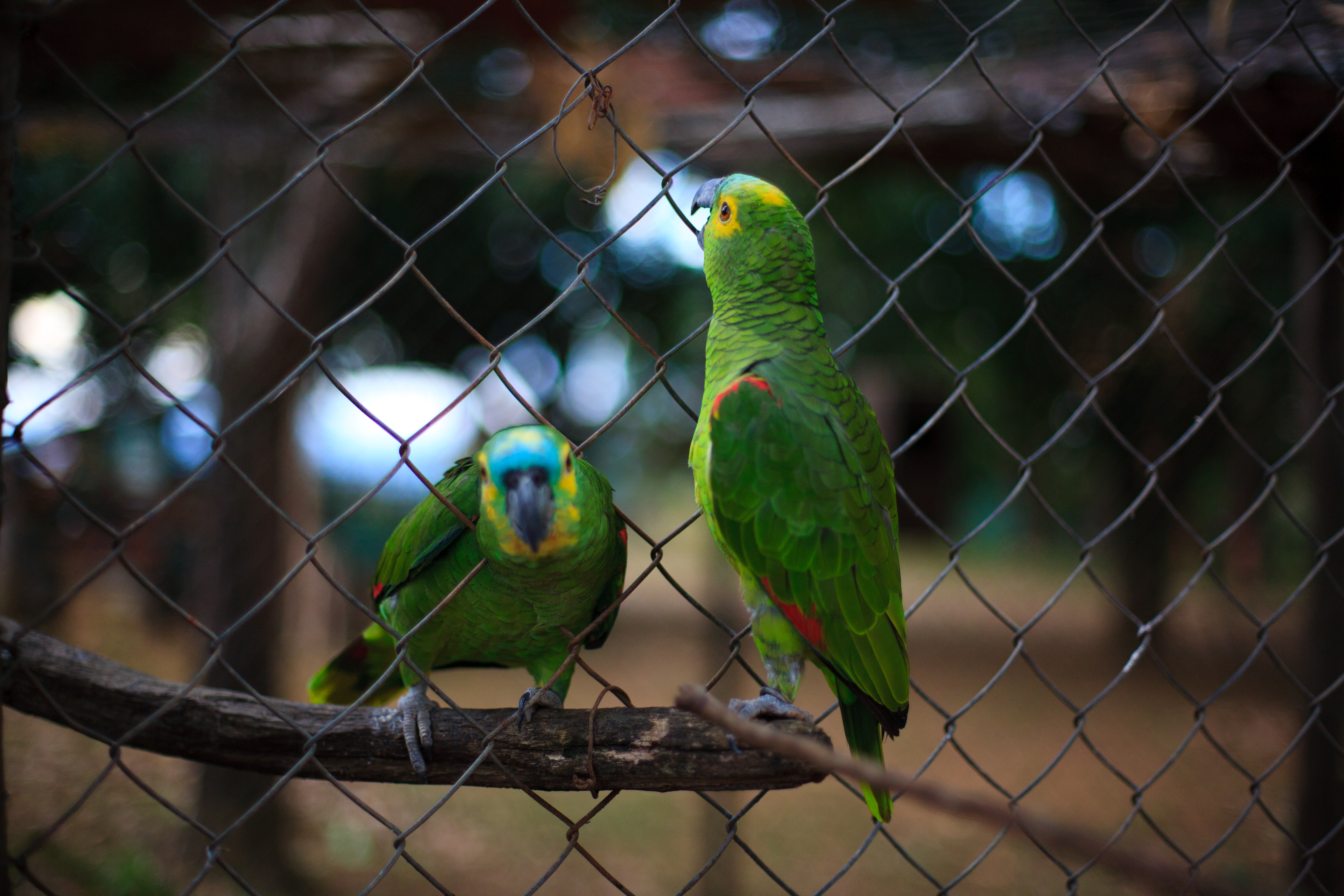 A Blue-fronted Amazon at Chapada Imperial, Brazilian Federal District, Brazil.